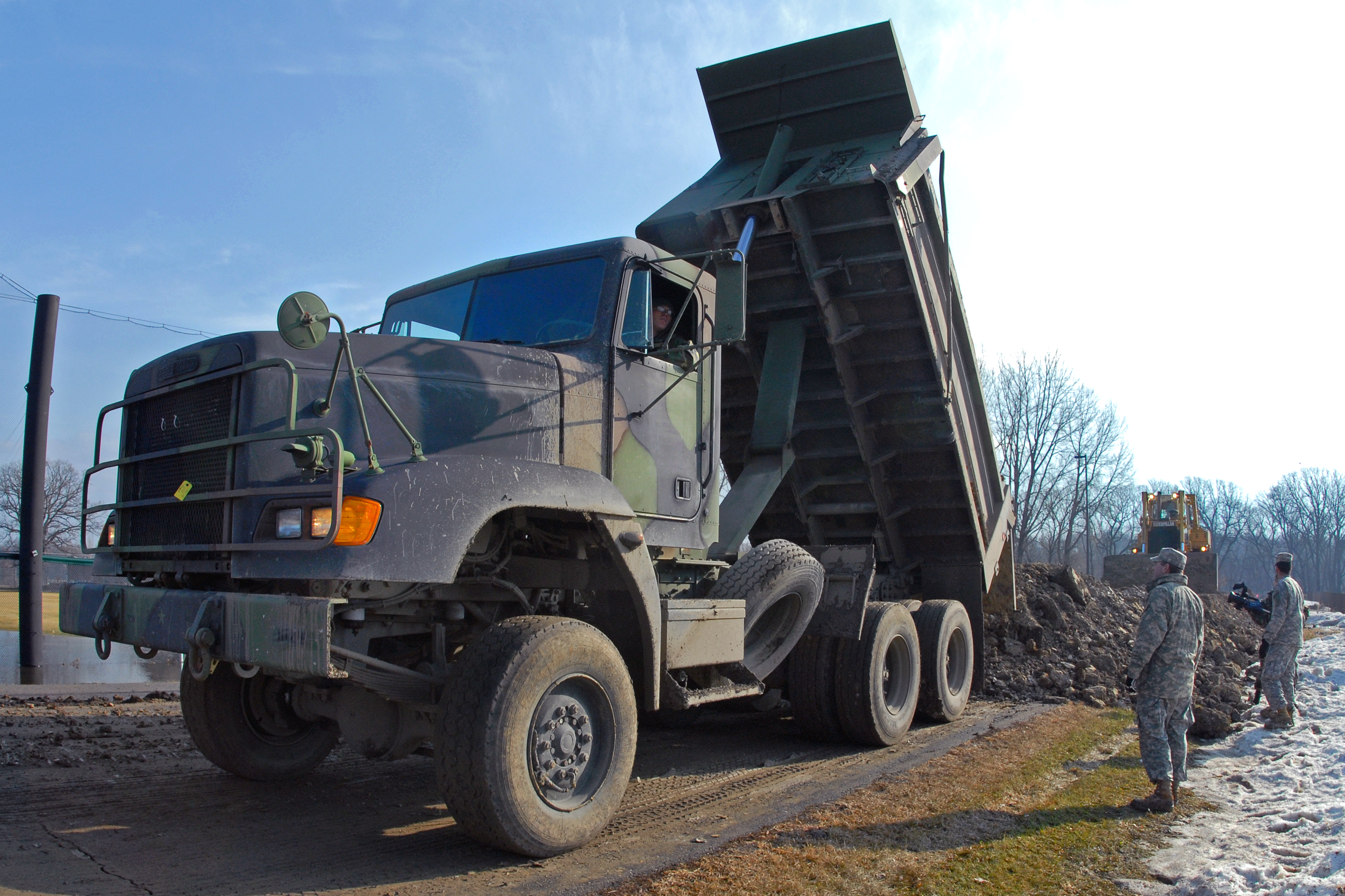 A North Dakota Army National Guard dump truck dumps clay to create an earthen barrier to block the Red River's rising flood waters in Fargo, N.D., March 24, 2009.